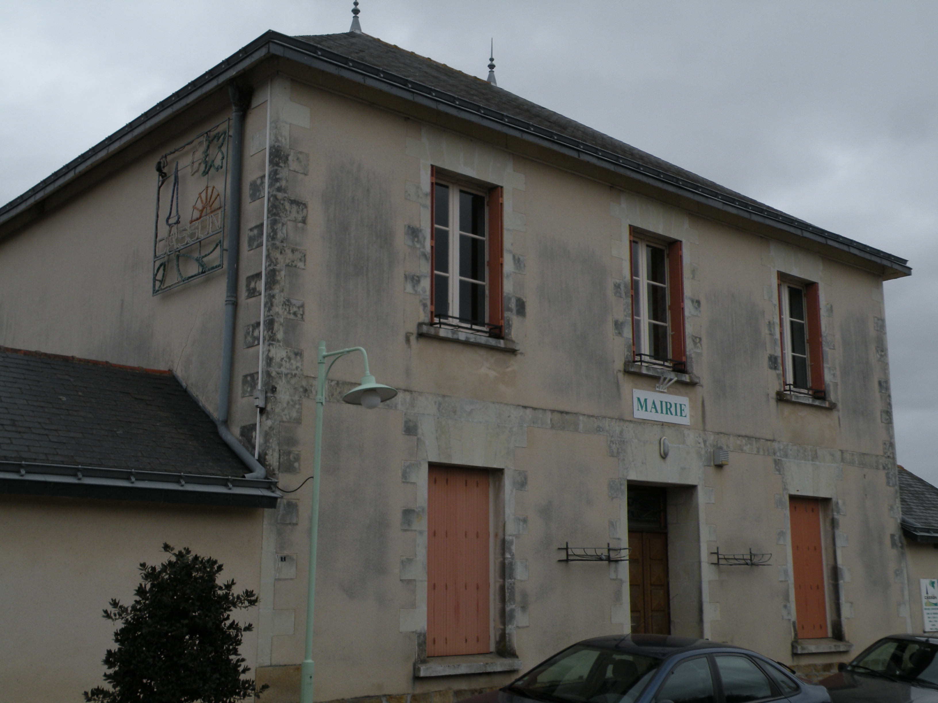 Town hall of Casson